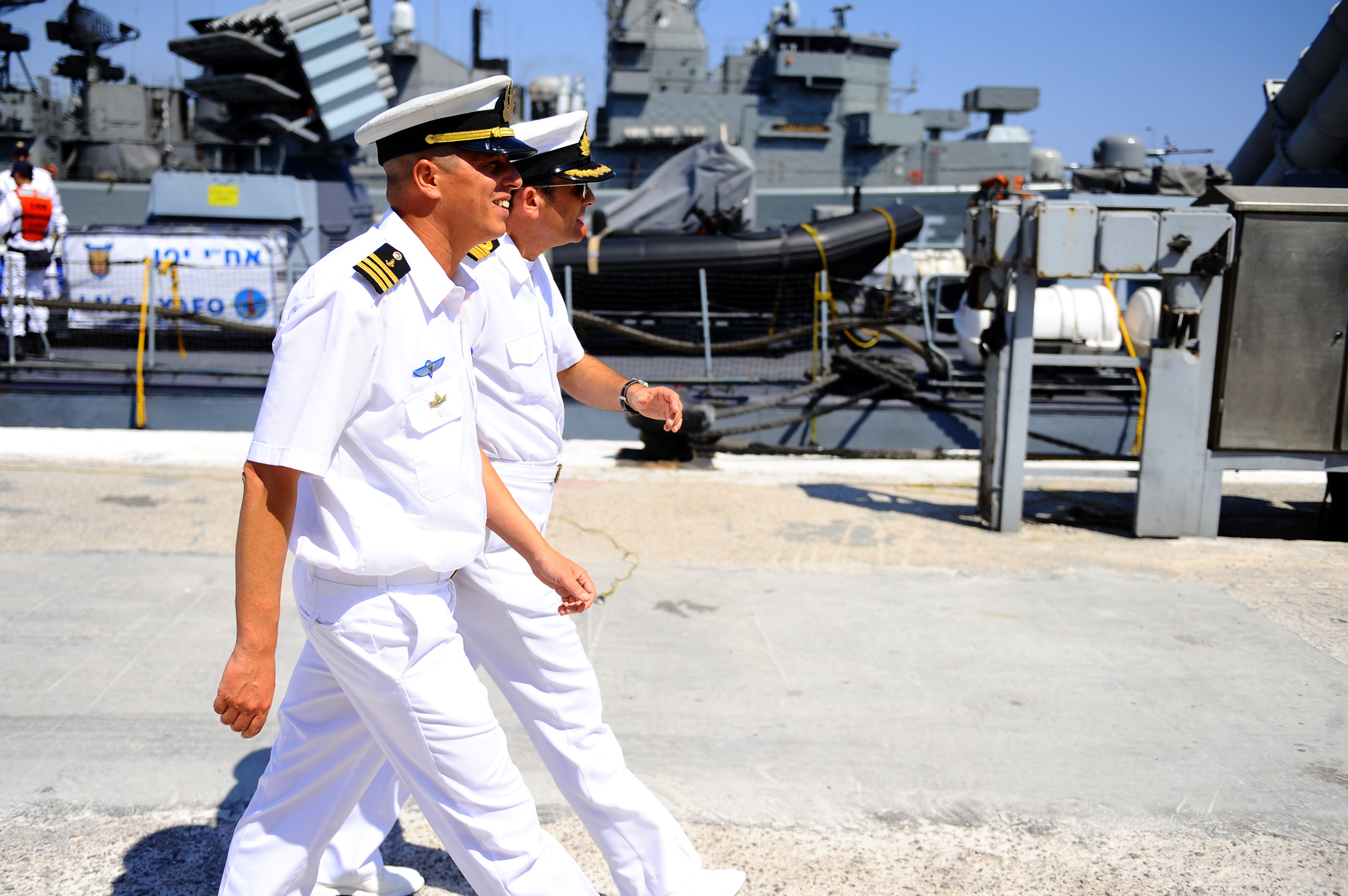 May 7, 2012 The Israeli and Greek Navies joined forces and put their cooperation to the test last May, when the two armies conducted a joint-drill near the Island of Piraeus. Photograph by Staff Sgt. Ori Shifrin, IDF Spokesperson's unit. The Israel Defense Forces Facebook • blog • Twitter